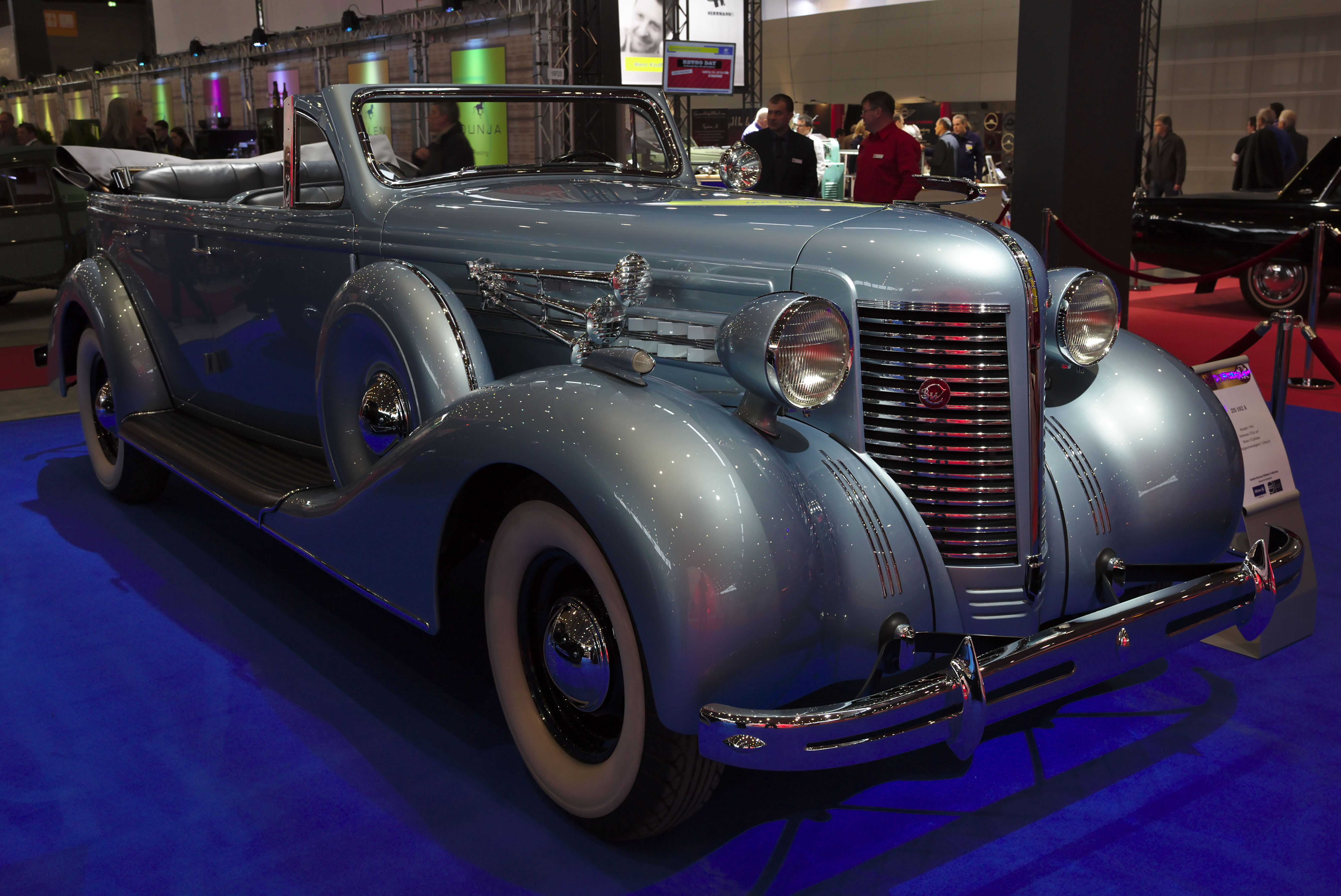 ZIS 102 A at Retro Classics 2018